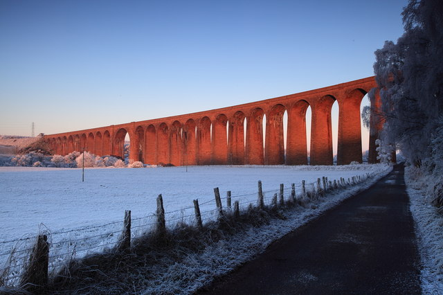 Culloden viaduct late afternoon low sunlight.